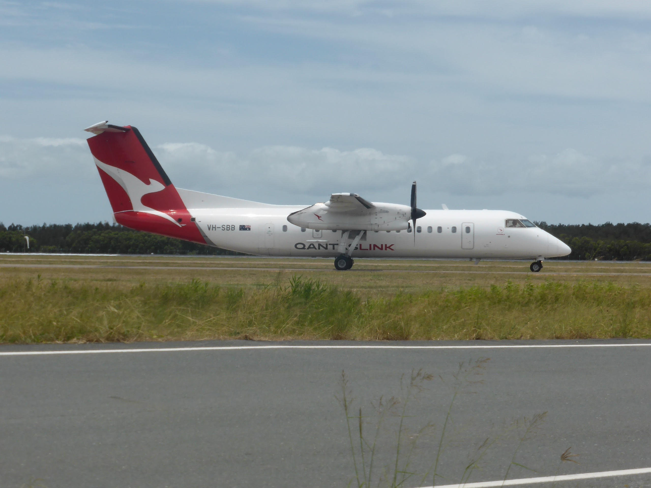 QantasLink Dash-8 Q300 in new livery. Photo taken at Acacia St, Brisbane Airport